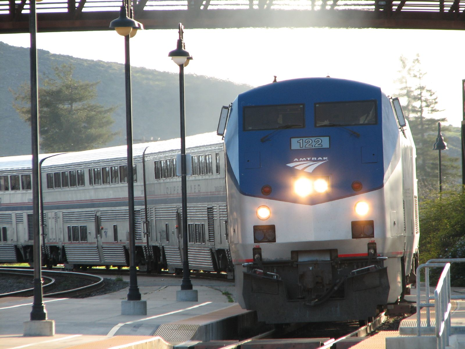 Coast Starlight at San Luis Obispo, CAAmtrak #14 - Coast Starlight